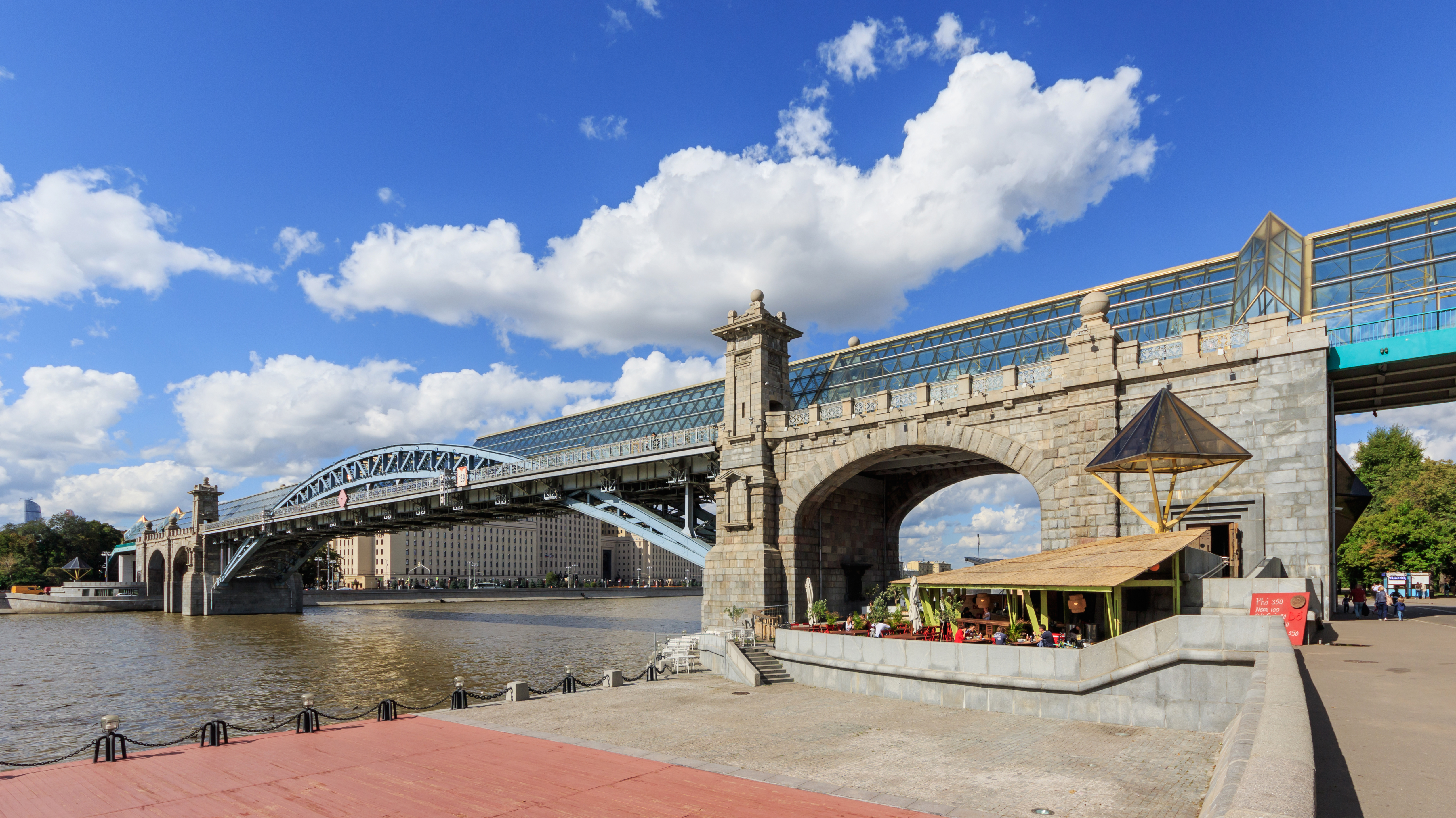 View of Pushkinsky Bridge from Neskuchny Garden. Moscow, Russia.